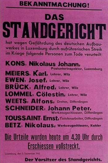 The state court has sentenced to death because of the insurrection hazard to German military construction work in Luxembourg by strike the following people...